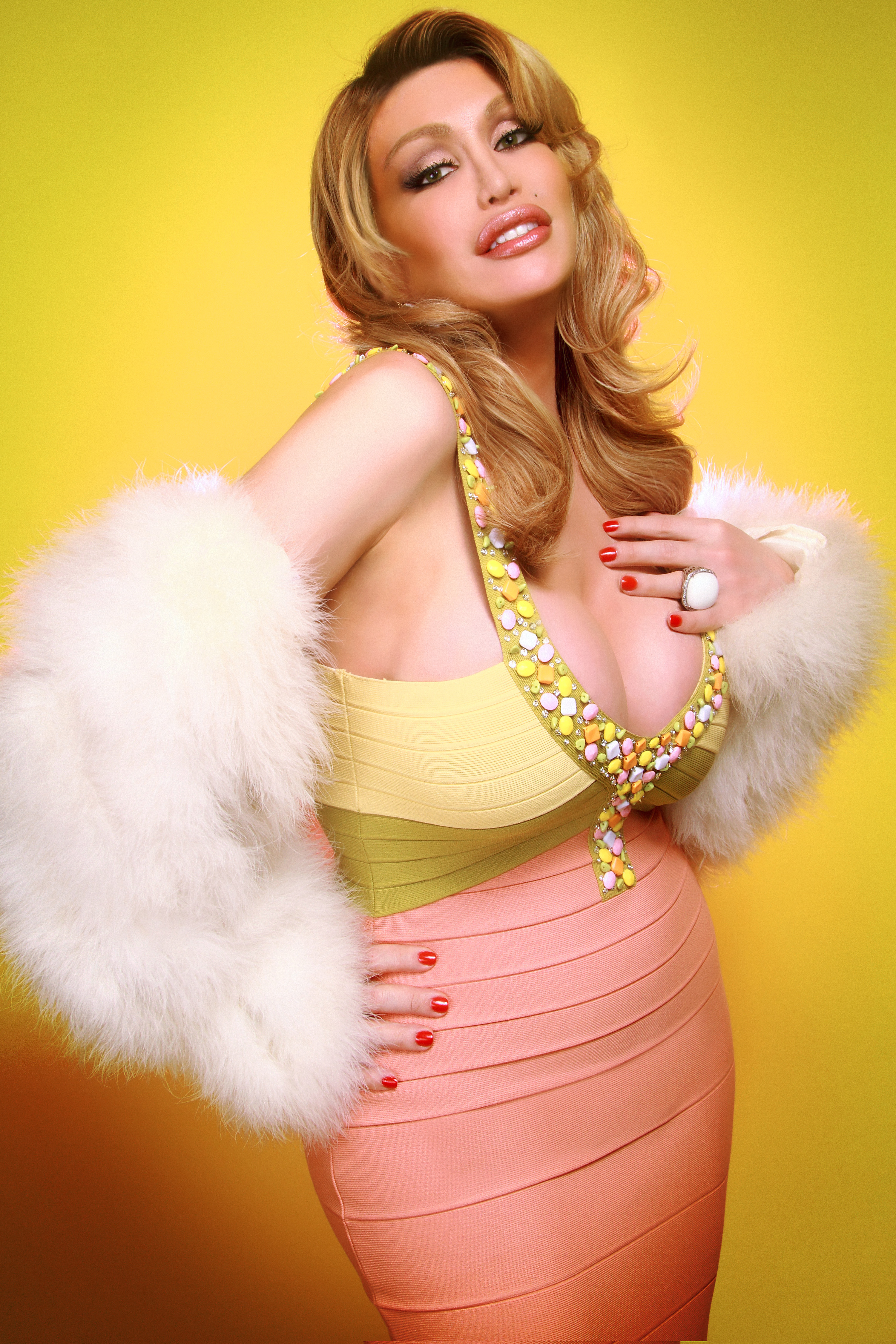 One of the many lovely photographs ive taken of Starr. This was done this year 2014 at xxxjames